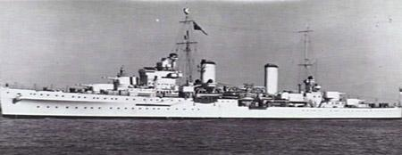 Australian War Memorial (AWM) catalog number 128061, upper black bar removed HMAS Hobart Copyright: The AWM record for this photo states that the copyright status is 'clear'. The photo was taken prior to 1942. Higher resolution images may be ordered through the AWM (Source: email from the AWM to Nick Dowling 6 January 2006). AWM Caption: Valetta, Malta. September 1938. Australian Cruiser HMAS Hobart entering the harbour. She is on her delivery voyage to Australia. The red, white and blue stripes painted on B turret are Spanish Civil War neutrality markings. Hobart remained at Malta from 8 to 15 September 1938. The copyright has expired on this image.